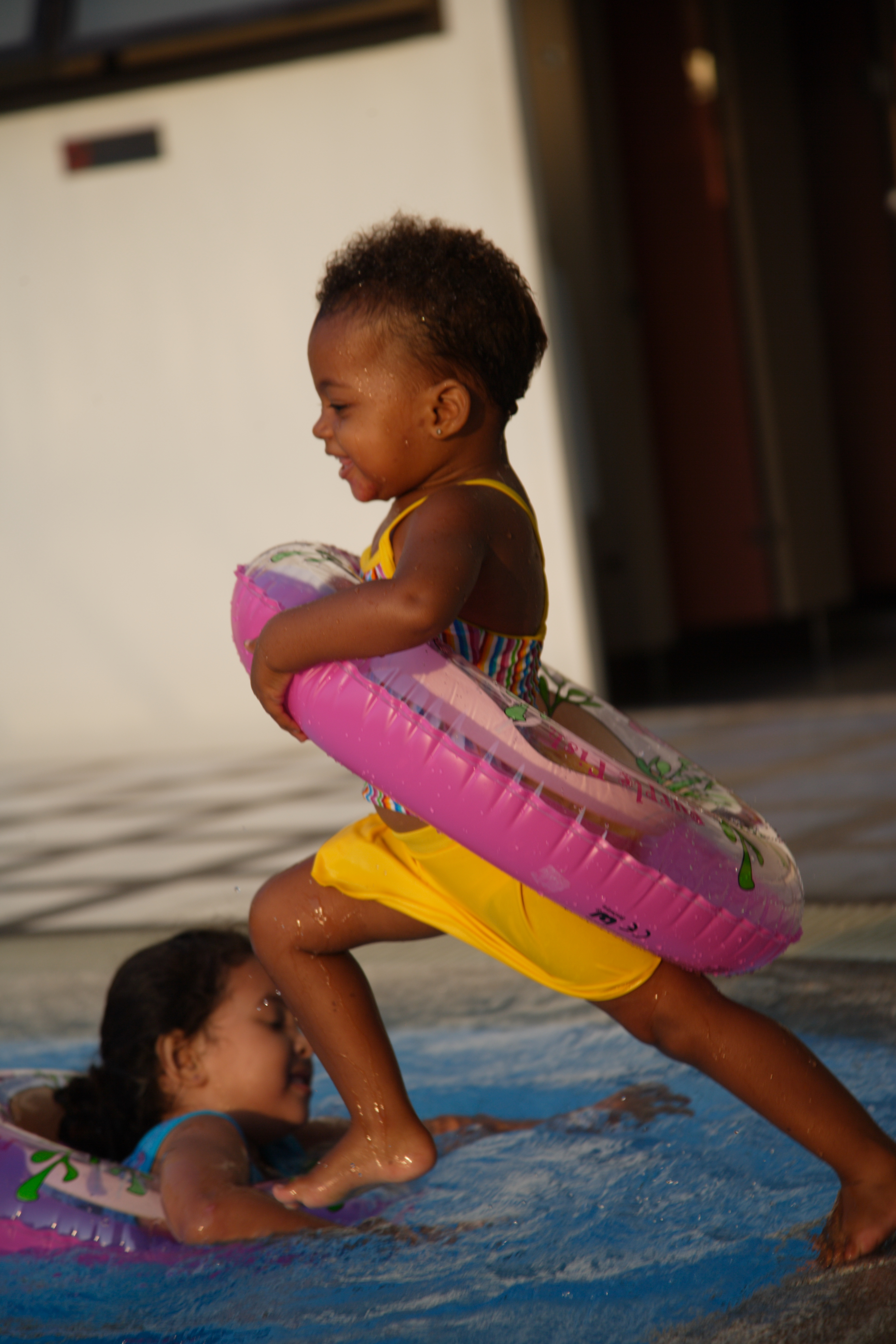 Little child playing in a swimming pool. Work by Dutch artist Peter Klashorst.